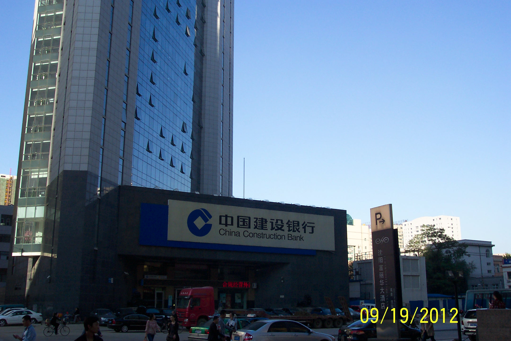 China Construction Bank in Shenyang